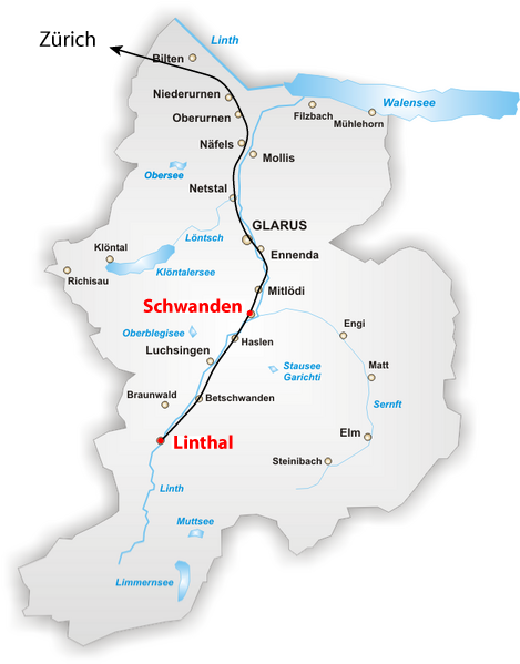 Map of the Glarner Sprinter train route (complete)